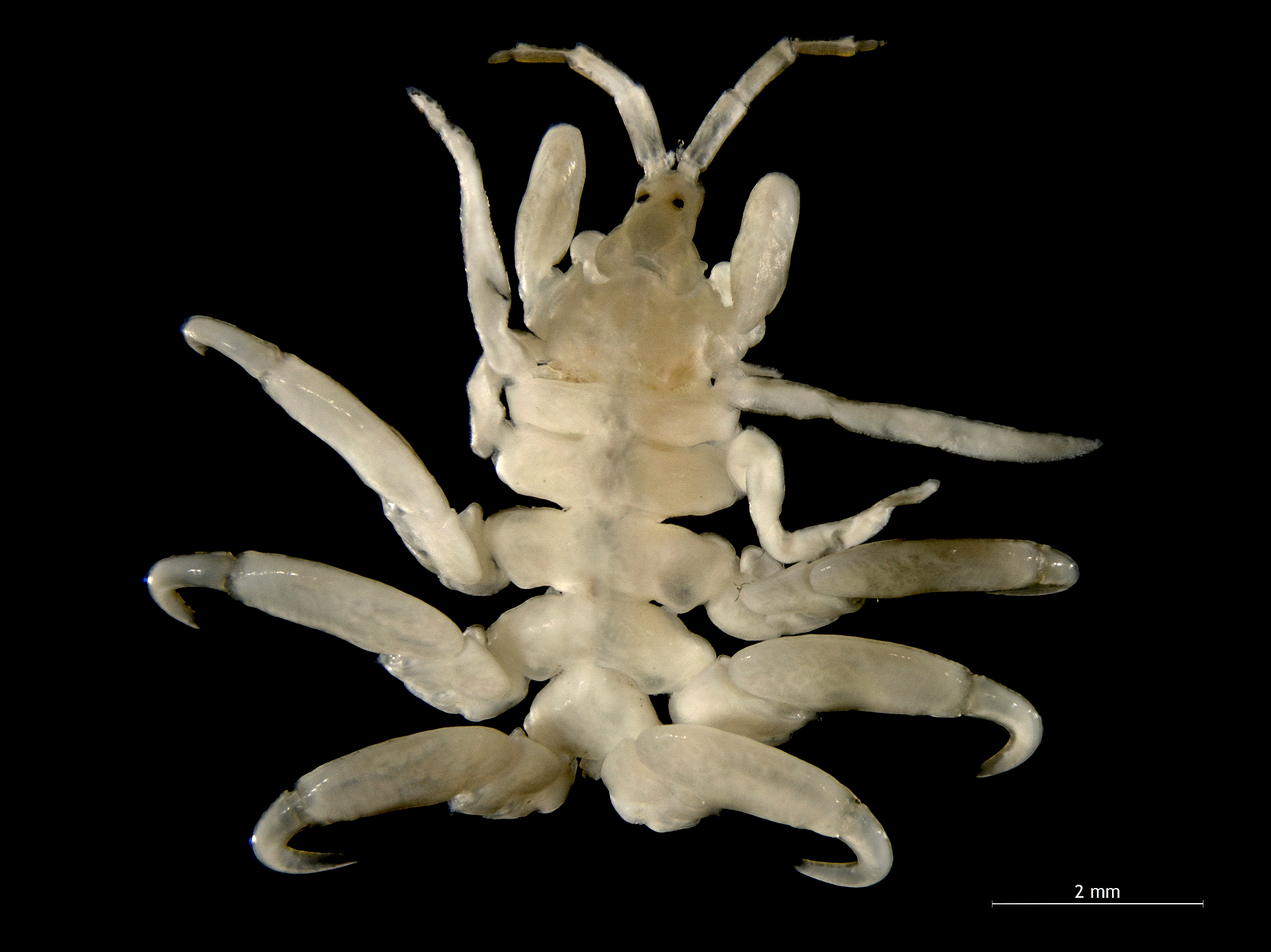 Dorsal view of a female Humpback louse, taken with a Leica DFC 490 camera mounted on a Leica M205C binocular microscope. Collected from a stranded Megaptera novaeangliae (Humpback whale) on 2006-03-05 at Lombardsijde at the Belgian coast (51°9′18″N 2°43′33.6″E / 51.155°N 2.726°E). Picture was taken in the lab.Length = ~10 mmFocus stacking of 36 pictures.